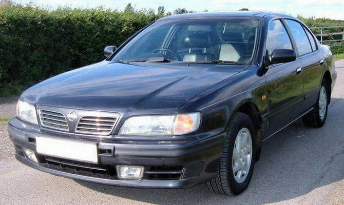 Nissan Maxima A32 European version